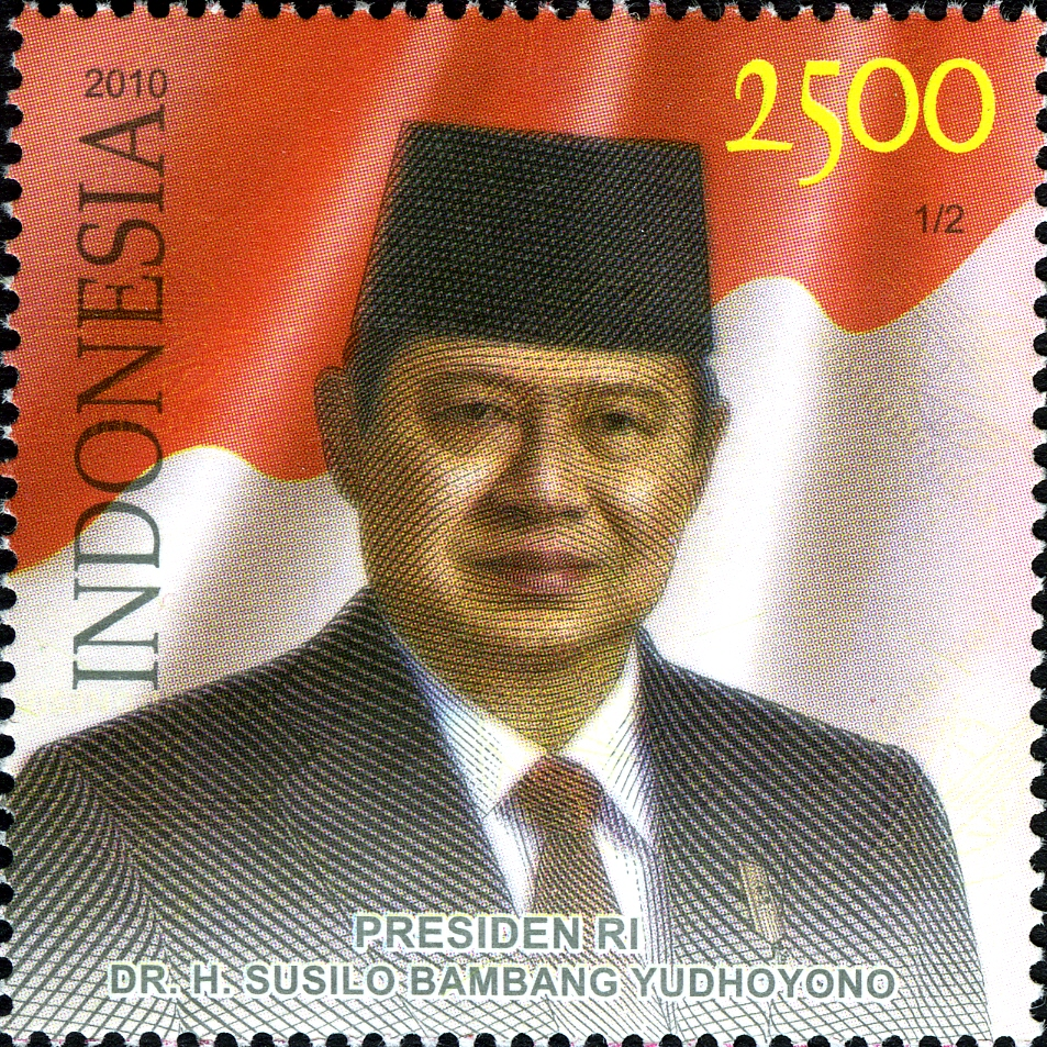 Stamps of Indonesia